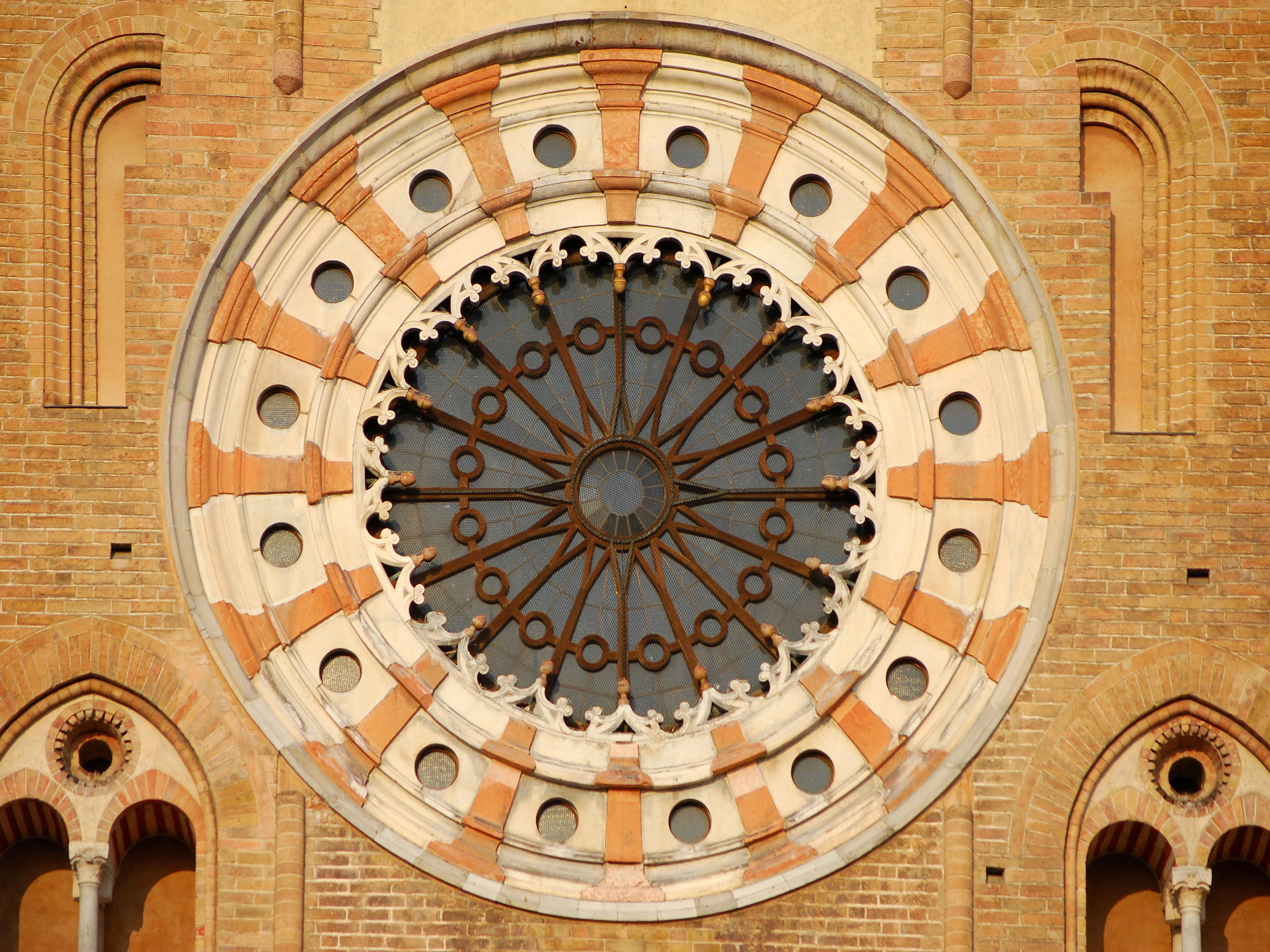 Rose window (Basilica Cathedral of Lodi, Italy)